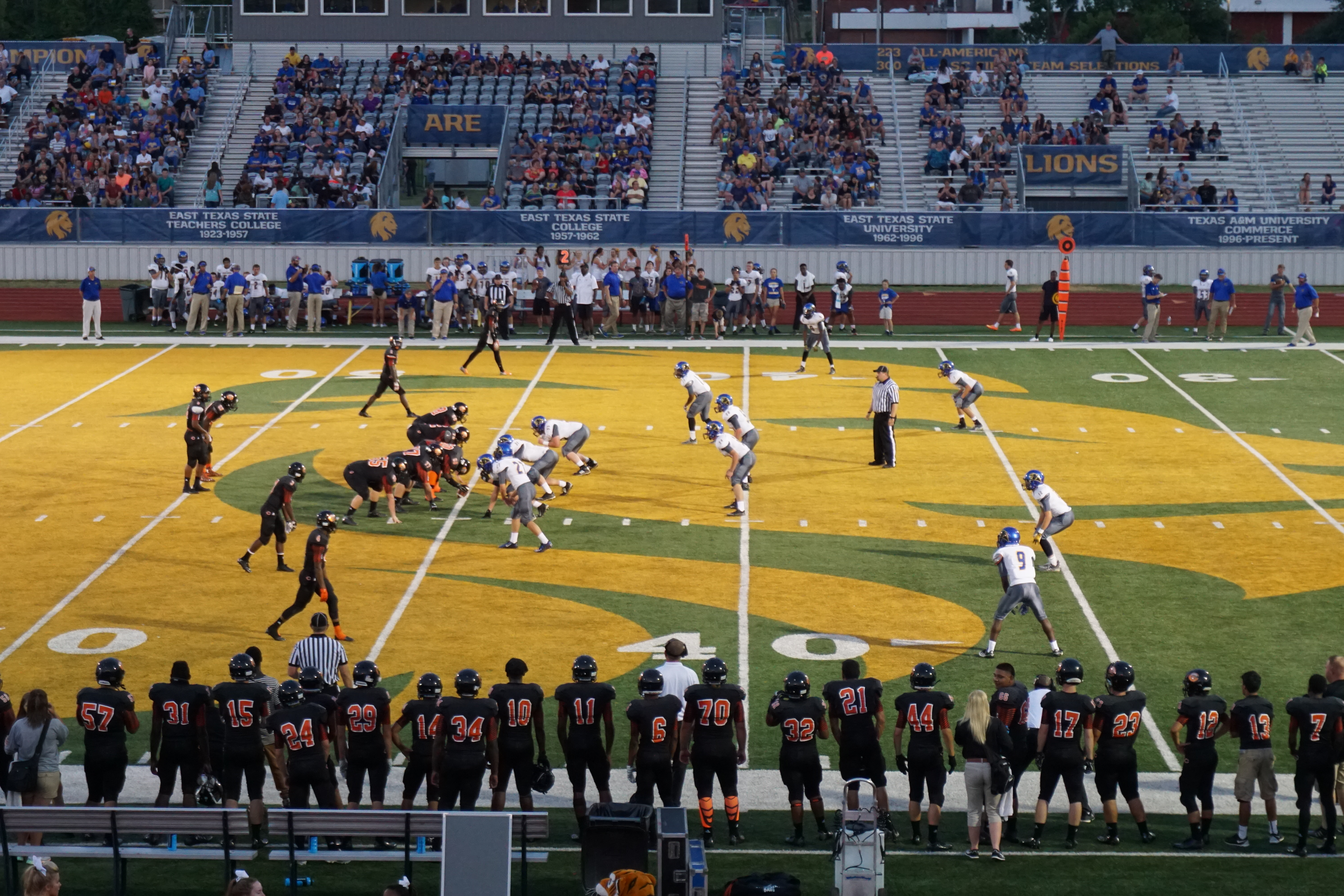 Commerce on offense during the North Lamar Panthers vs. Commerce Tigers high school football game at Memorial Stadium in Commerce, Texas (United States). North Lamar won 48–25.